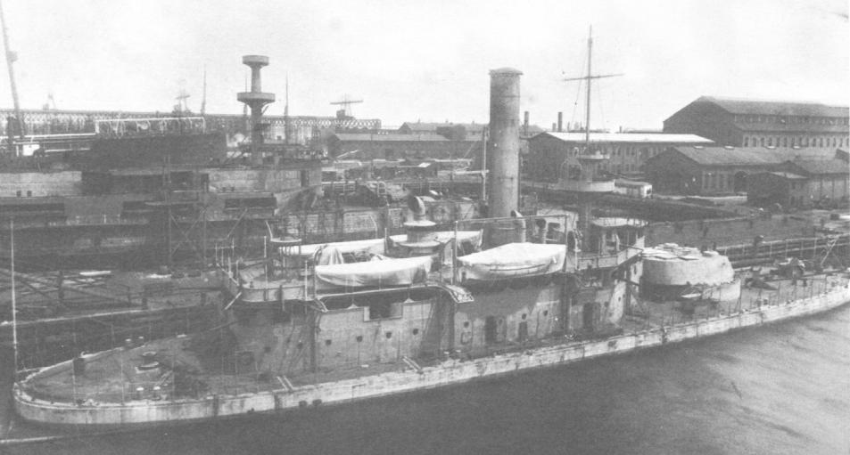 A cropped photo of the USS Arkansas during her fitting our period. The USS Missouri is in the background. Original found at LOC, Catalog Card No. 77-603596.